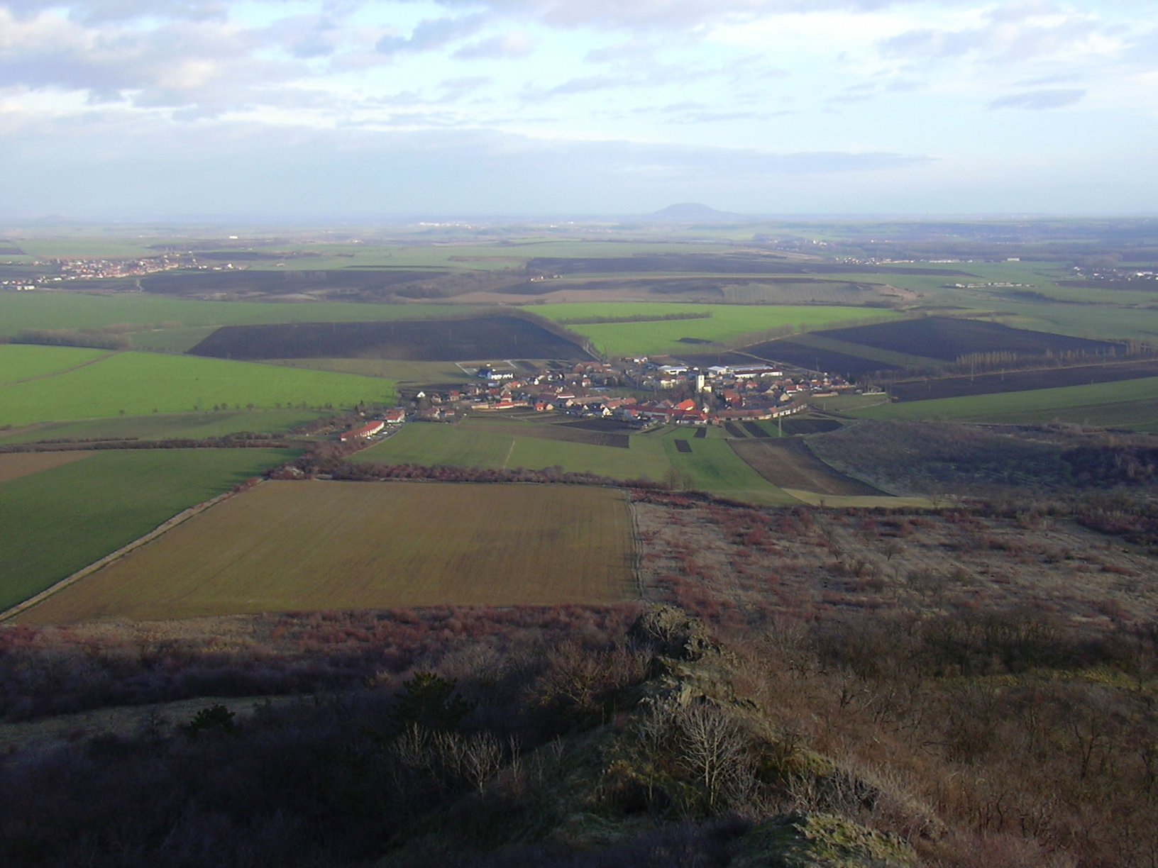 Village of Slatina as seen from the Hazmburk Castle. In backgound on the left village of Chotěšov, Říp Mountain on the horizon. 30. prosince 2006 vyfotografoval Miraceti